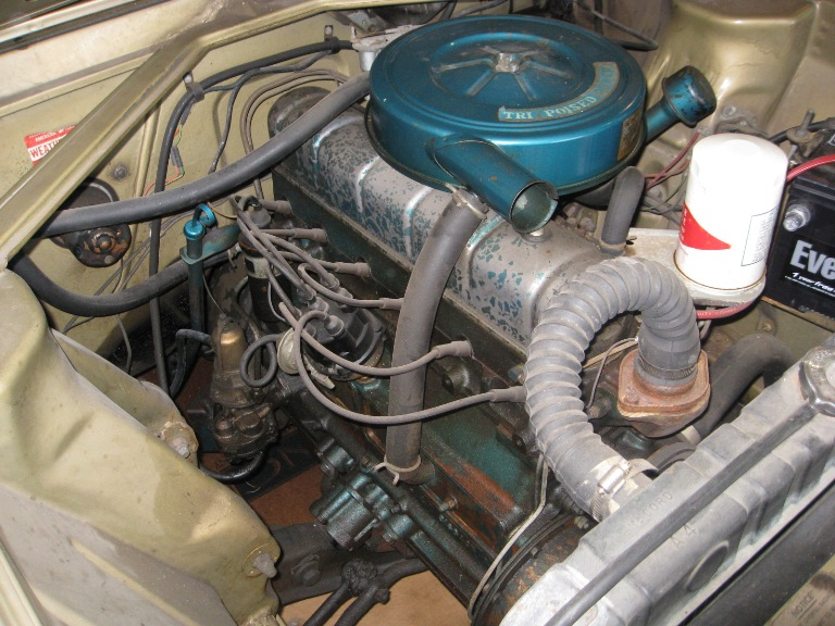 Picture of a 1964 Rambler American's Engine bay, holding a 195.6 OHV Inline Six.